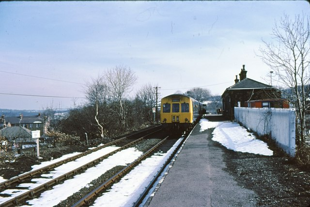 Clayton West railway station Original description: Clayton West station platform 1979 In its dying days as a somewhat moribund British Rail branch a train to Huddersfield awaits departure from Clayton West. The branch survived until the coal mine which adjoined the station was worked out.